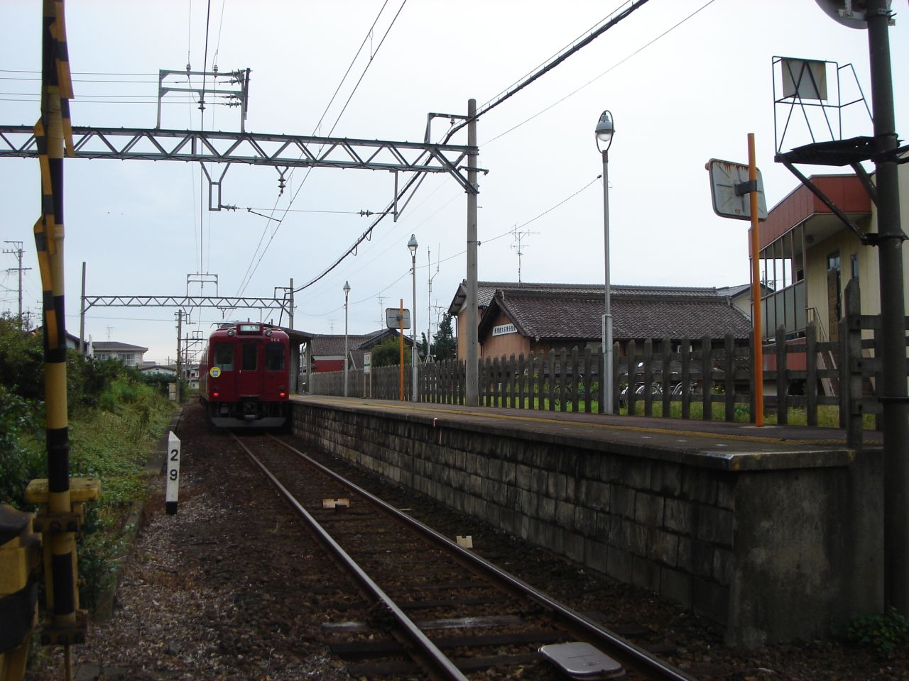 Ishizu Station in Kaizu, Gifu Japan